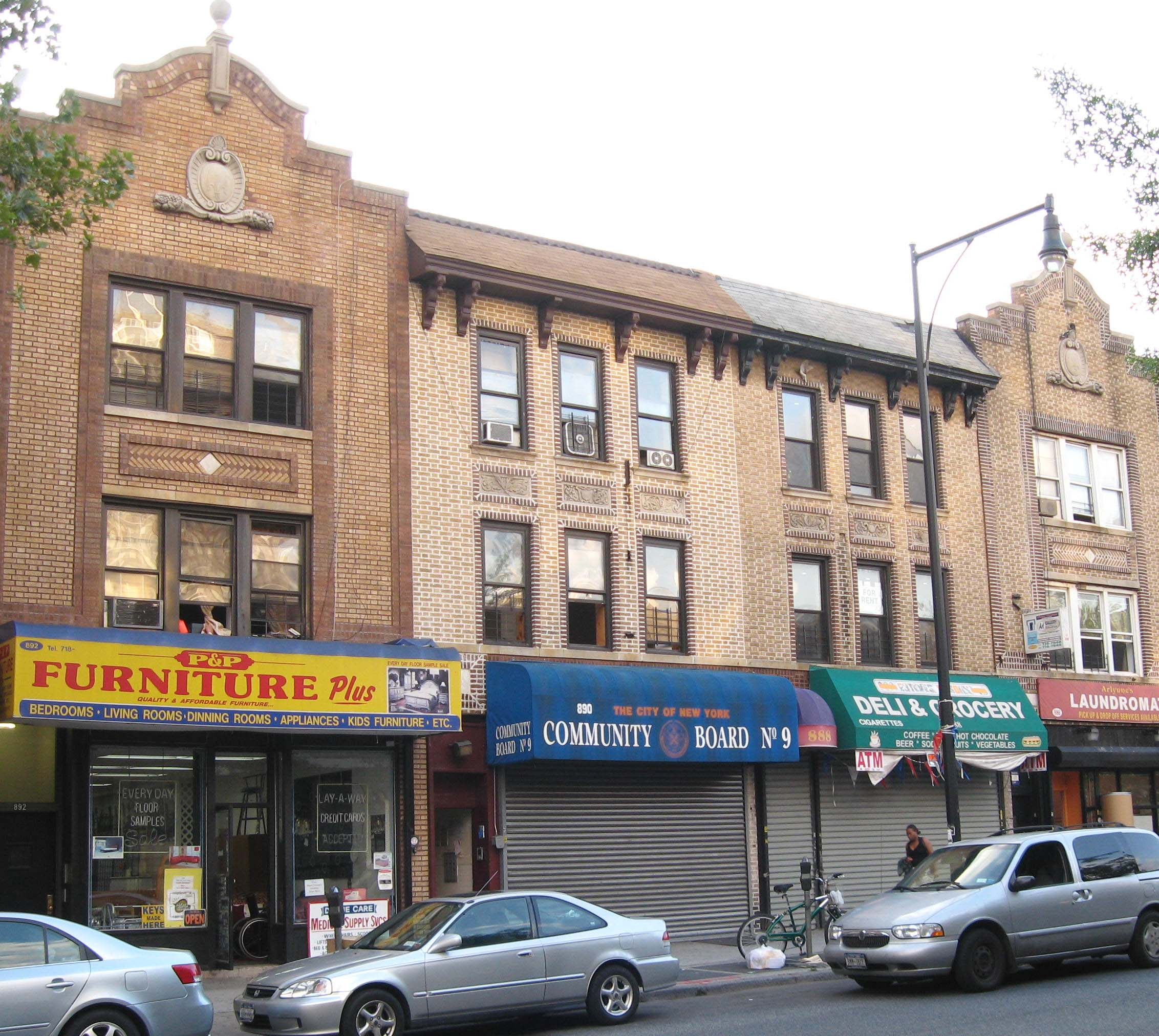 Looking west across Nostrand Avenue, near Carroll Street, at office of Brooklyn Community Board 9 on a sunny early evening